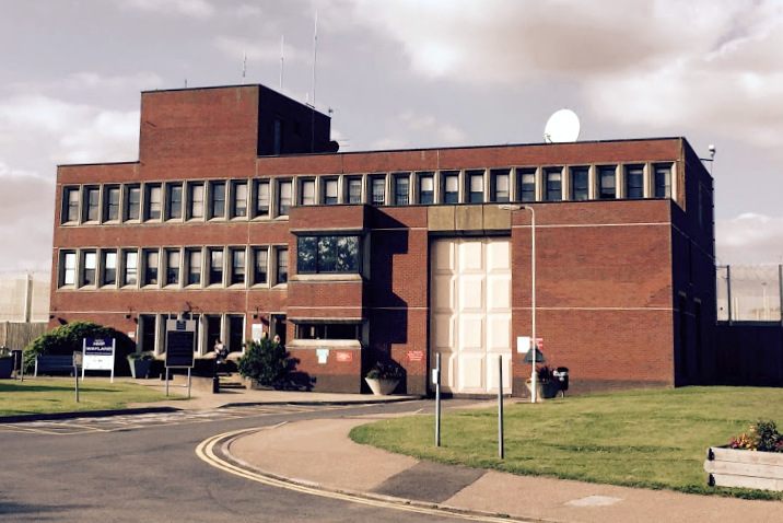 Main enterance to HMP Wayland, Norfolk.